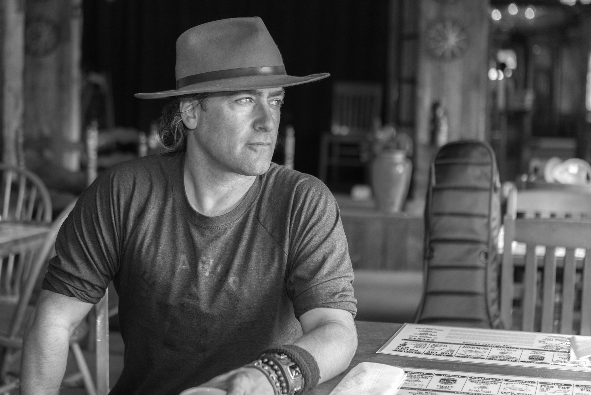 A recent (2017) picture of Ken Goldstein